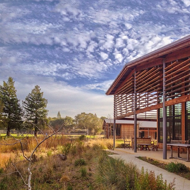 Library in the Landscape :: The Portola Valley Library is a wonderful place to sit and read or just contemplate, with a subtlety designed landscape full of native plants that runs up to the building's edge. Landscape by Lutsko Associates